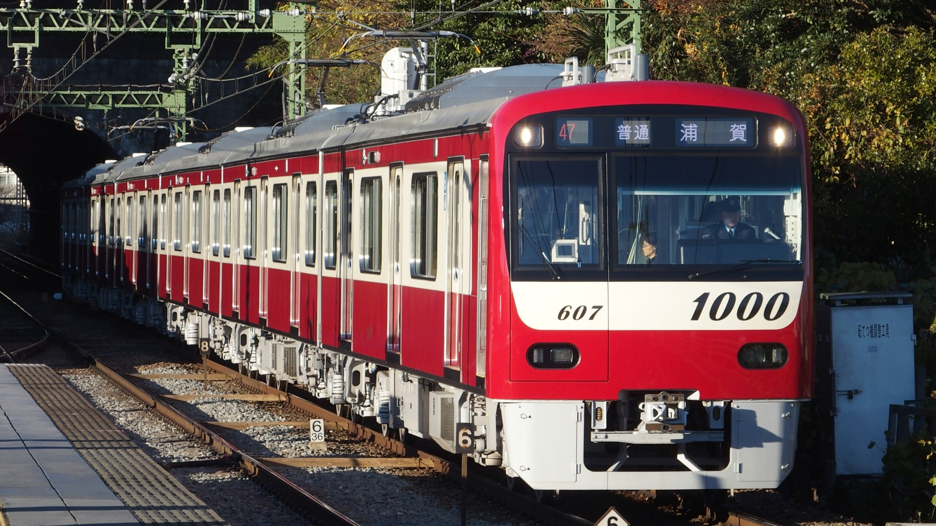 Keikyu New 1000 series EMU set 1607 at Keikyu Tomioka Station on the Keikyu Main Line in Kanagawa Prefecture, Japan